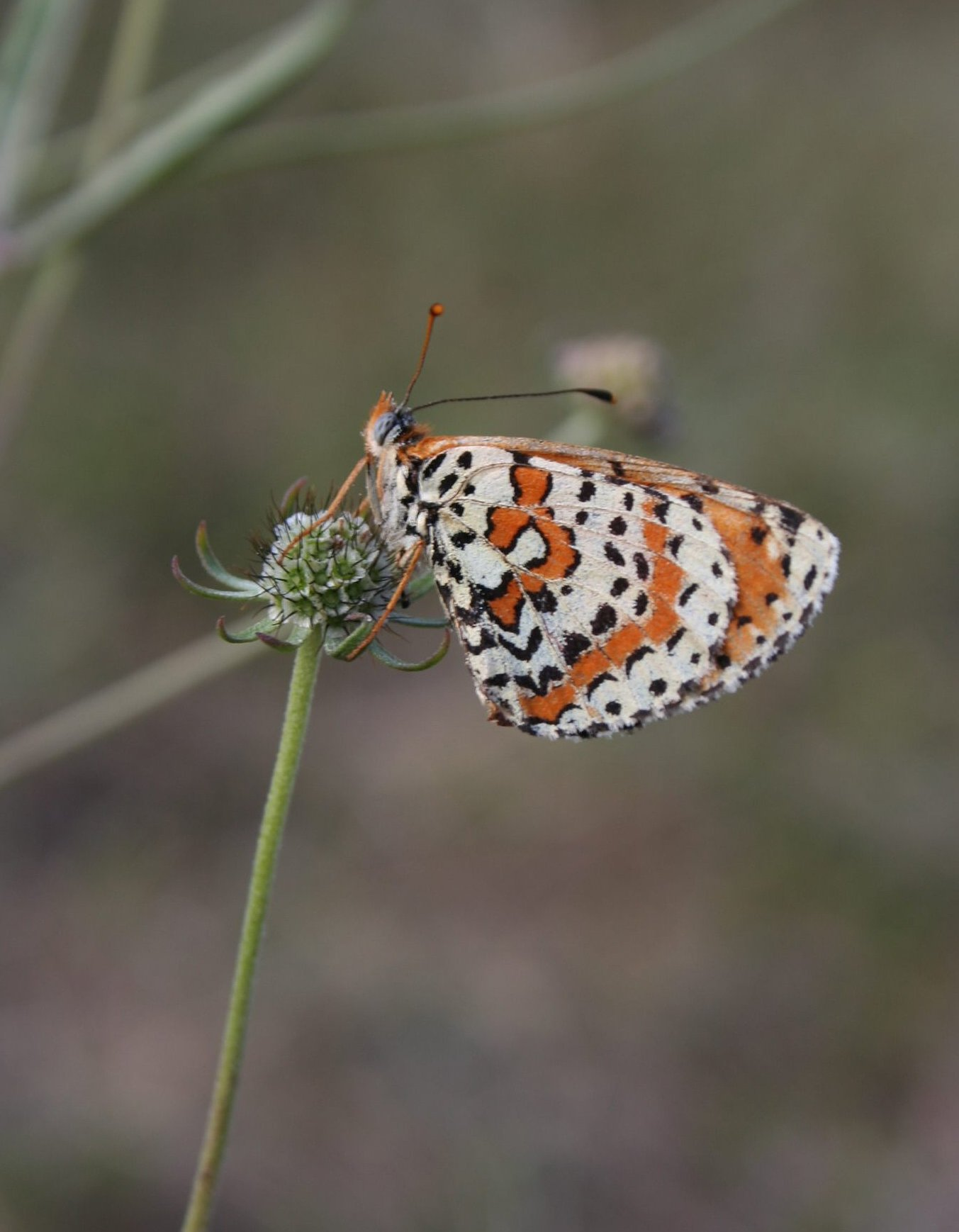 Melitaea didyma photo by Jeffdelonge St-Martin-Labouval, 46, France, août 2006